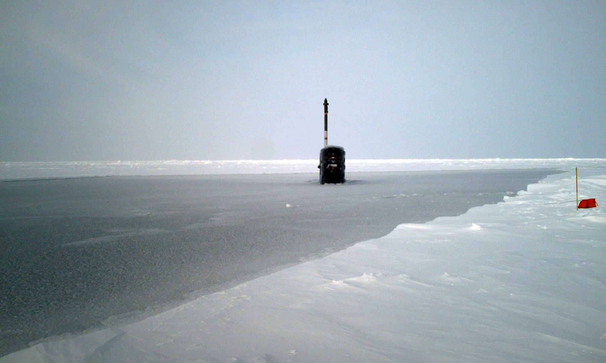 PRUDHOE BAY-DEADHORSE, Alaska (March 16, 2007) - Royal Navy submarine HMS Tireless (S88) surfaces in the arctic ice. Tireless is taking part in ICEX-07 with the Los Angeles-class fast attack submarine USS Alexandria (SSN 757) and the Applied Physics Laboratory Ice Station (APLIS). U.S. Navy photo (RELEASED)